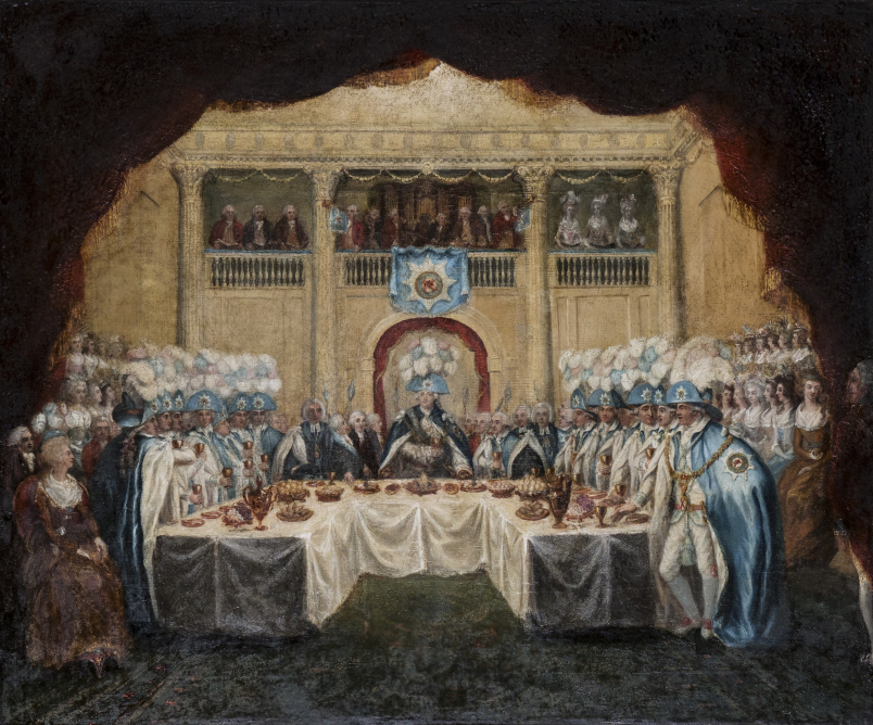 The installation banquet of the Knights of St Patrick in St. Patrick's Hall of Dublin Castle, Dublin 1783